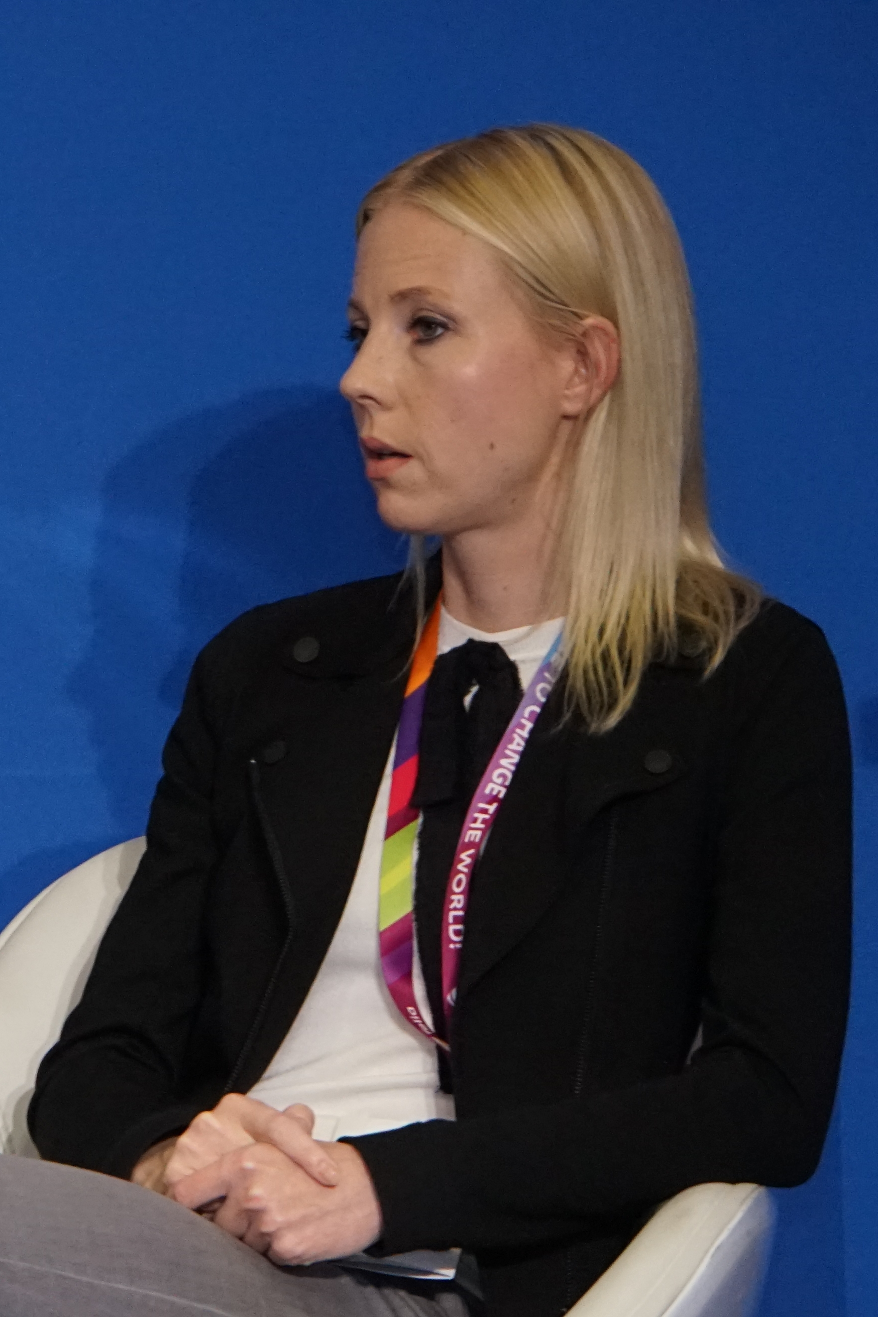 Jessikka Aro – awarded investigative reporter with Finnish Broadcasting Company's social media project Yle Kioski.